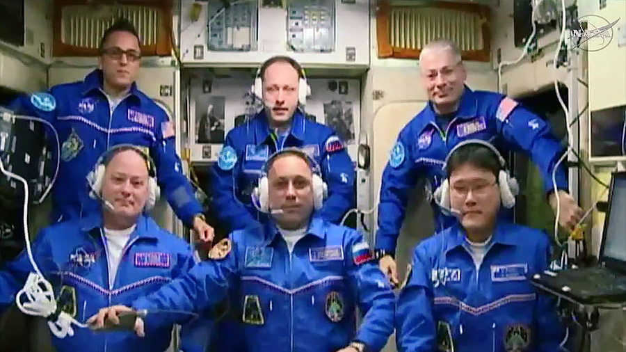 The newly-expanded Expedition 54 crew gathers in the Zvezda service module for ceremonila congratulations from family and mission officials.